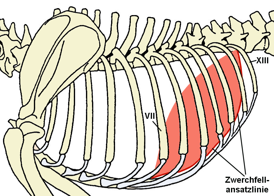 lateral projection of the diaphragm in a dog. own work --Uwe Gille 18:15, 16 March 2006 (UTC)